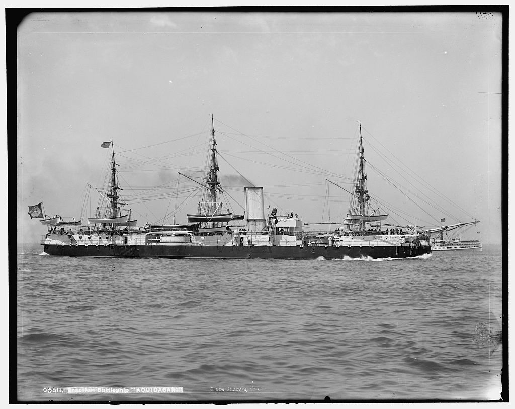 Title: Brazilian battleship Aquidaban Related Names: Detroit Publishing Co. publisher Date Created/Published: [between 1890 and 1899] Medium: 1 negative : glass ; 8 x 10 in. Part of: Detroit Publishing Company Photograph Collection Reproduction Number: LC-D4-5511 (b&w glass neg.) Call Number: LC-D4-5511 [P&P] Repository: Library of Congress Prints and Photographs Division Washington, D.C. 20540 USA Notes: Date based on Detroit, Catalogue F (1899). Detroit Publishing Co. no. 05511. Gift; State Historical Society of Colorado; 1949.